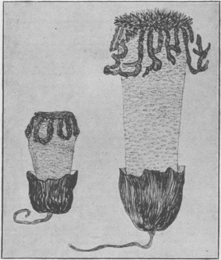 A sketch of Dictybole texensis, an obsolete and invalid synonym for Lysurus .